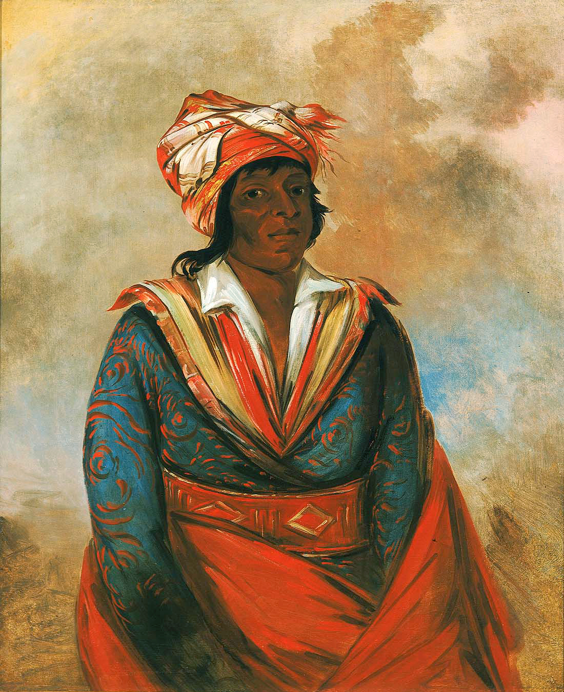 Kút-tee-o-túb-bee, How Did He Kill?, a Noted Brave